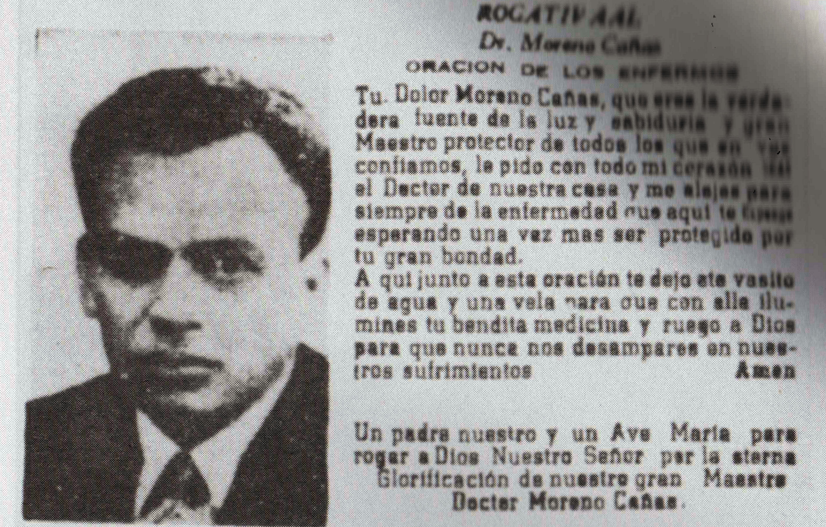 Popular prayer for Costa Rican Dr. Ricardo Moreno Cañas